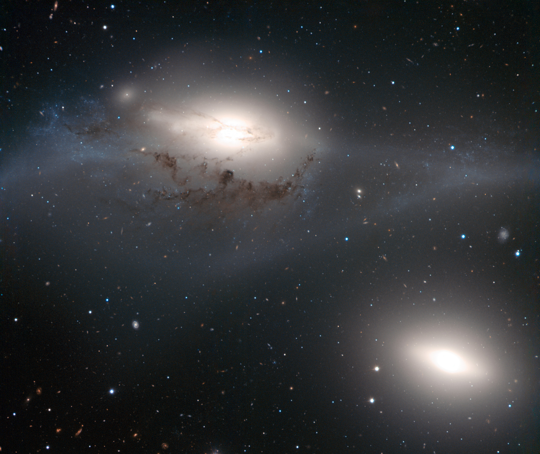 This striking image, taken with the FORS2 instrument on the Very Large Telescope, shows a beautiful yet peculiar pair of galaxies, NGC 4438 and NGC 4435, nicknamed The Eyes. The larger of these, at the top of the picture, NGC 4438, is thought to have once been a spiral galaxy that was strongly deformed by collisions in the relatively recent past. The two galaxies belong to the Virgo Cluster and are about 50 million light-years away.